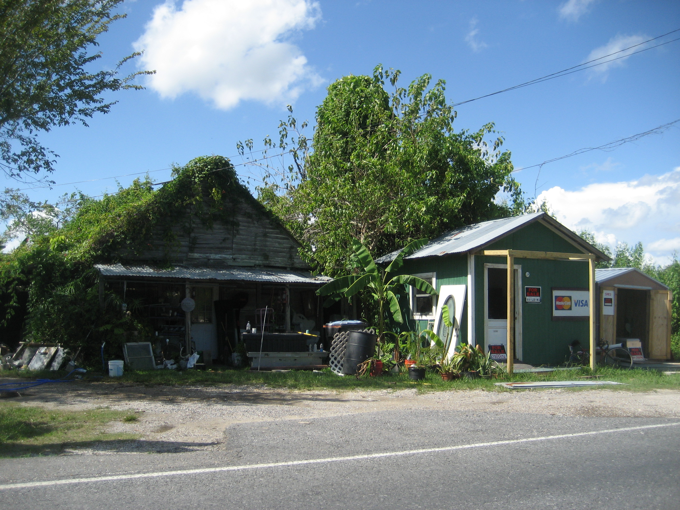 Plaquemines Parish, Louisiana. House on English Turn Road.